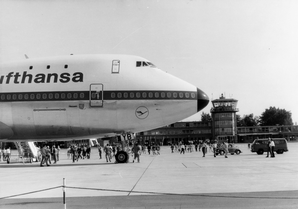 First landing of a Boeing 747 "Jumbo Jet" in Nuremberg on July 12th, 1970.